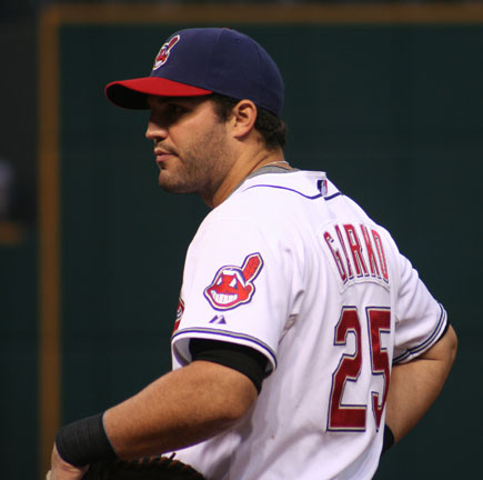 Ryan F. Garko. First baseman, Cleveland Indians. Photo shot on 7/27/07 at Jacob's Field.